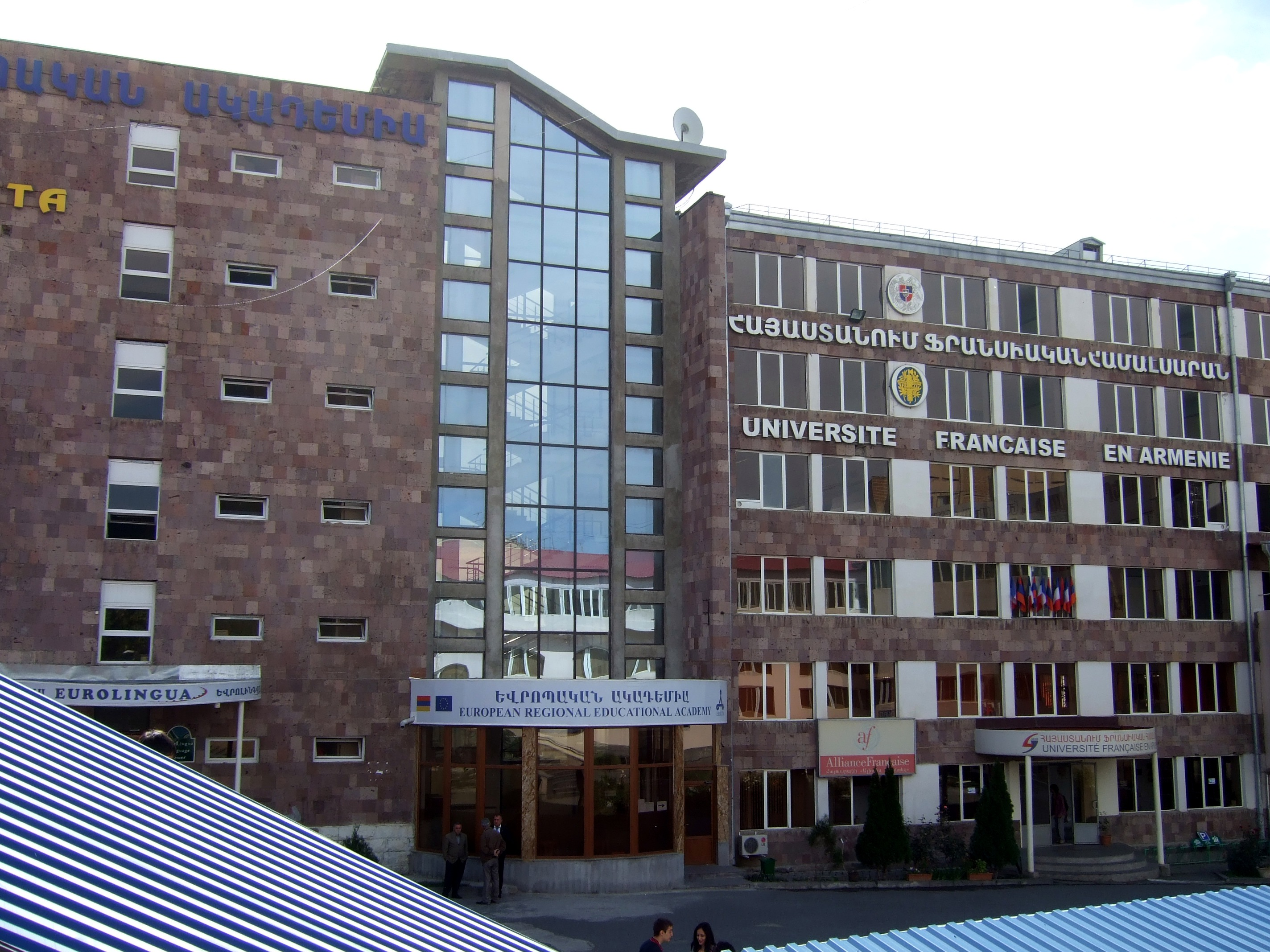 French University in Armenia